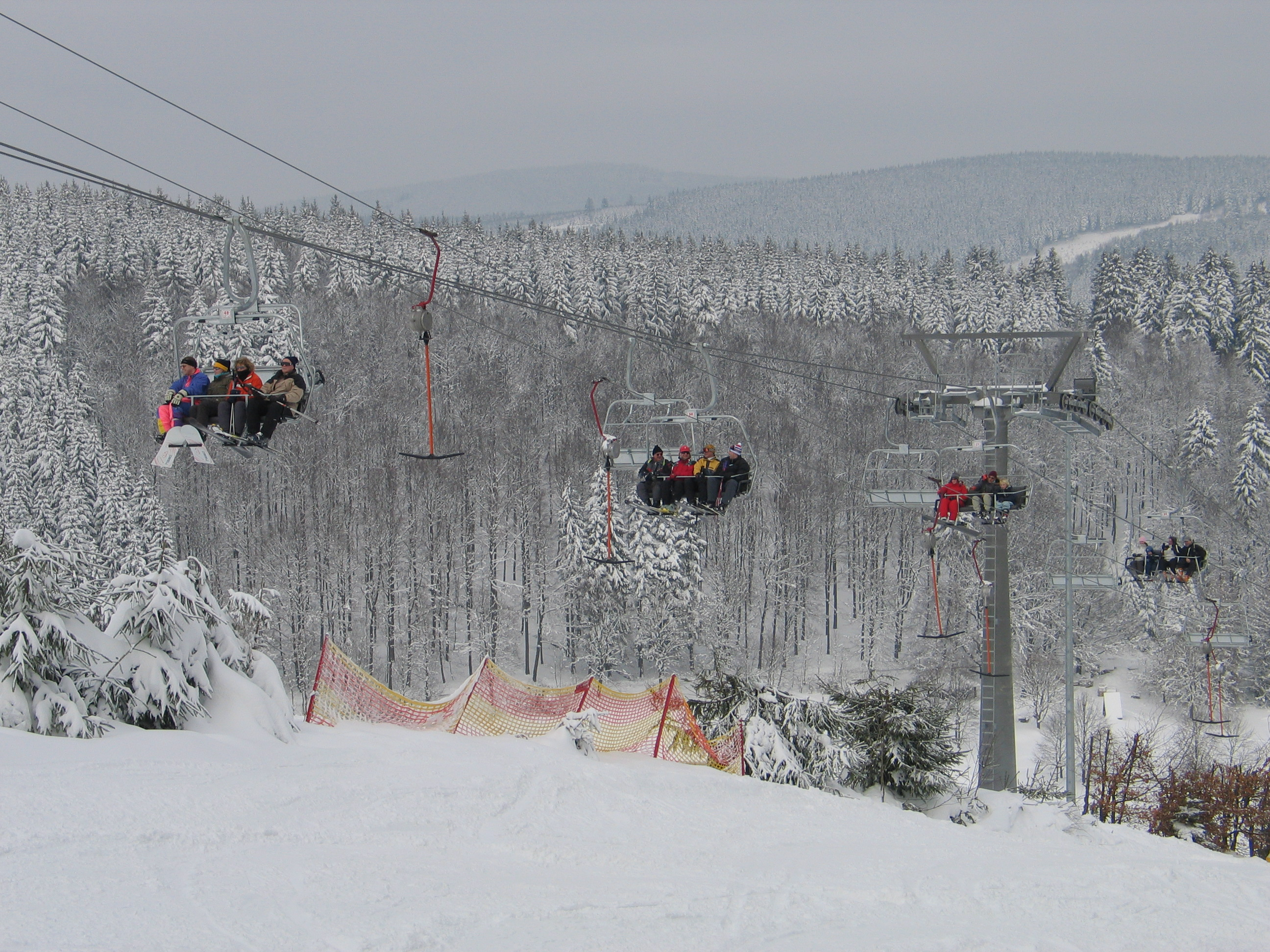 Description: enmpty T-bar lift, an full chair-lift Source: Photo by Nicolai Schäfer; 2005 , first uploadet to the german Wikipedia